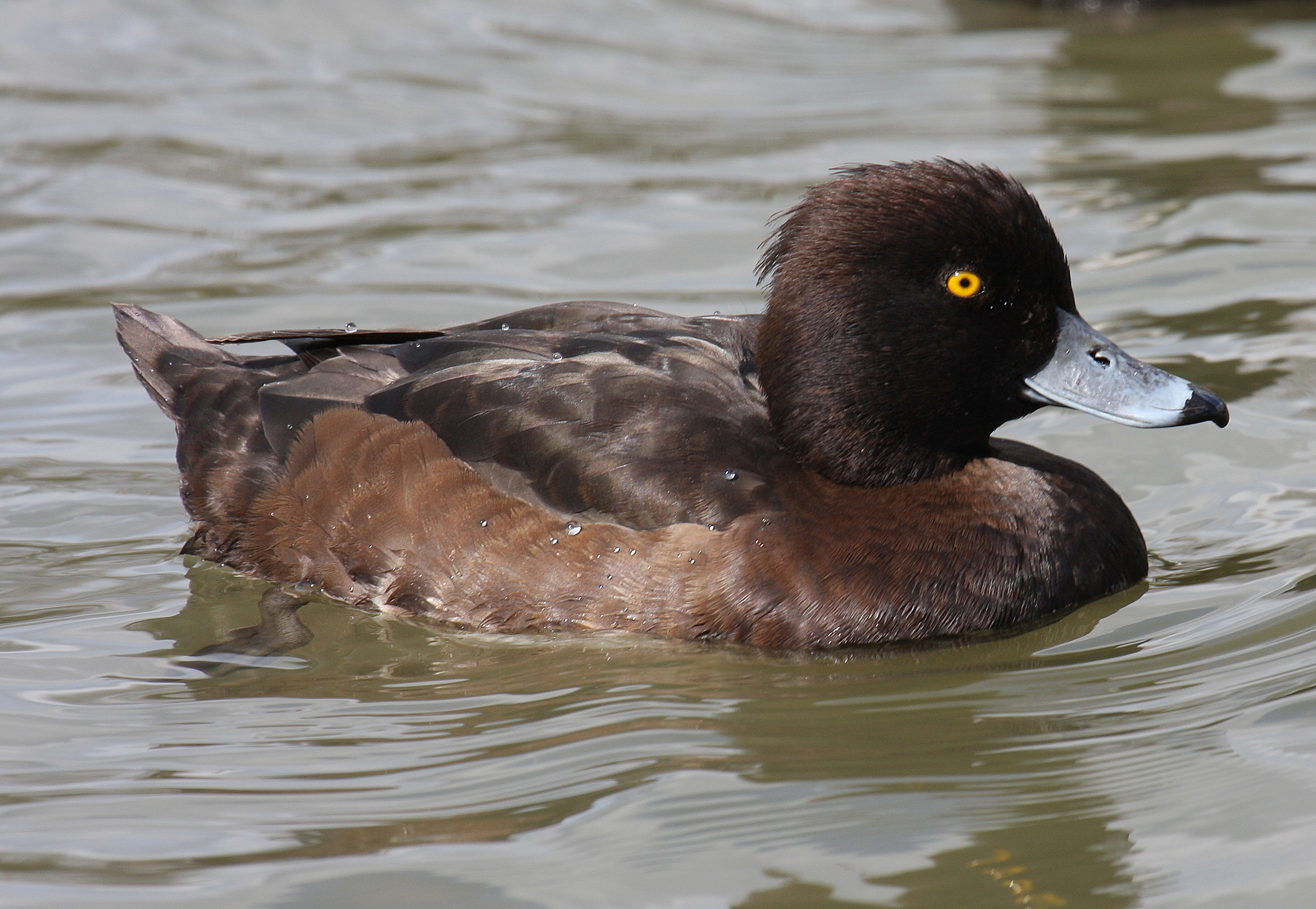 female Tufted Duck, Wohrasandfang, Kirchhain, Germany